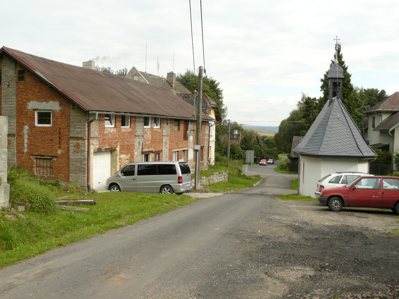 This photograph was taken within the scope of the second year of the 'Czech Municipalities Photographs' grant.